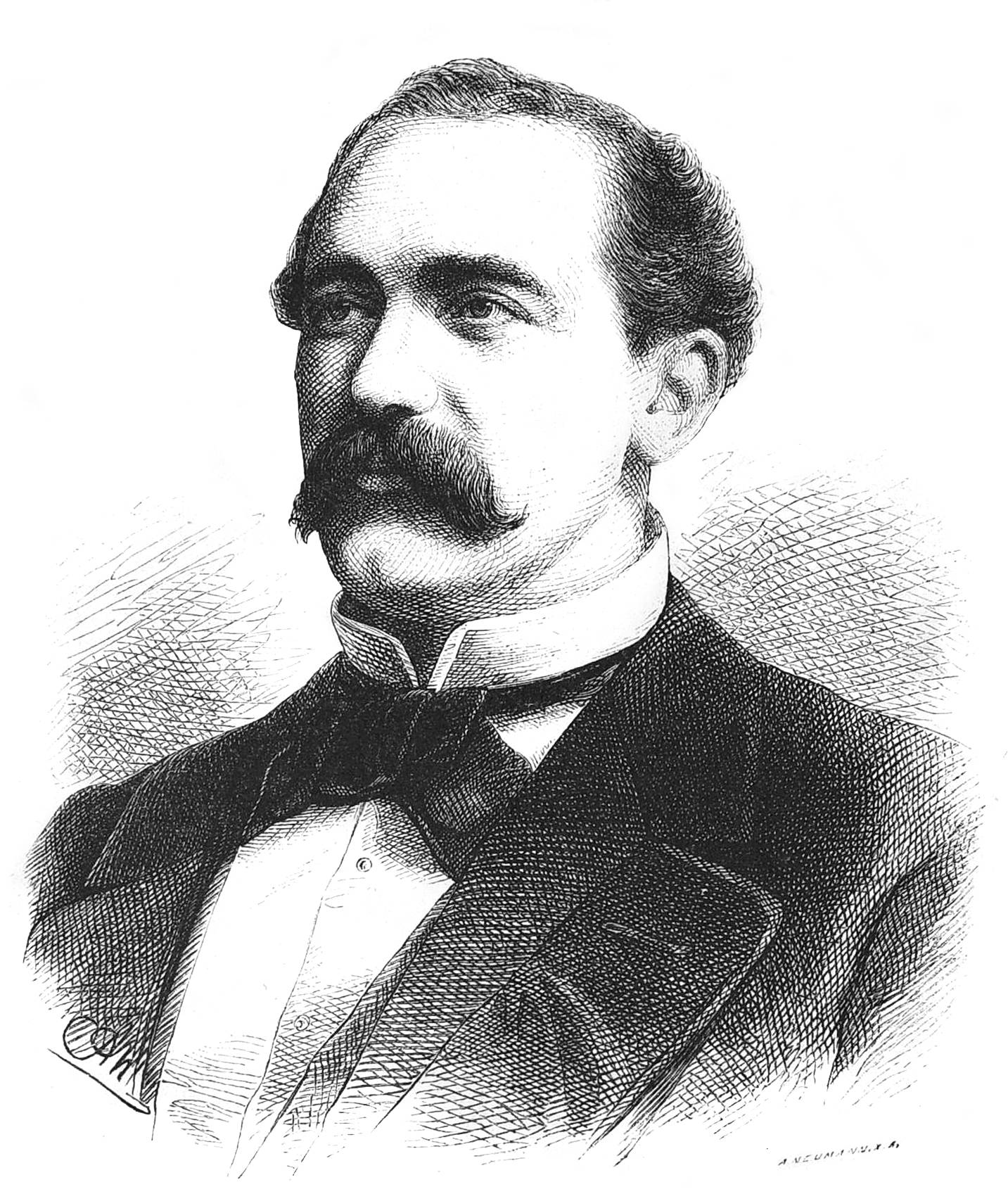 caption: "Rudolf Denhardt.Nach einer Photographie auf Holz gezeichnet von Adolf Neumann."